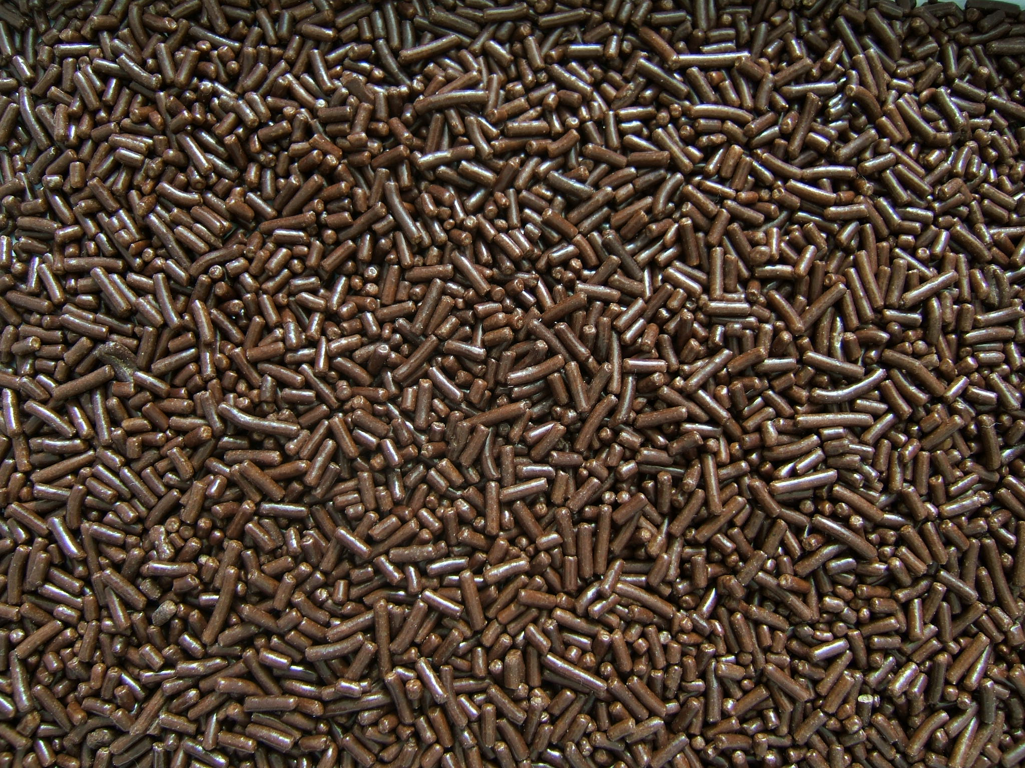 "Hagelslag", a probably typically Dutch kind of bread topping. It consists of chocolate or chocolate-like cylinders with a diameter of approximately 1 millimetre. This photograph, which has been donated to the public domain, was made and uploaded on March 26 2006. (The time in the .jpg file (March 2004) is incorrect.)